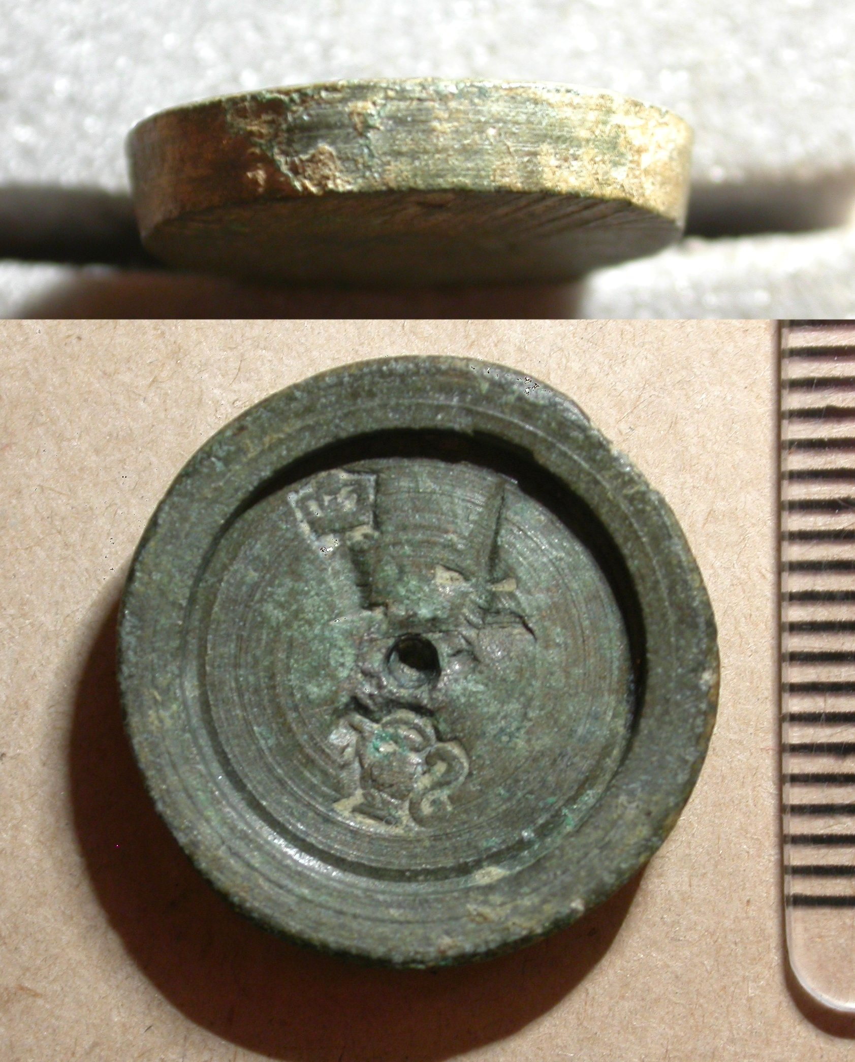 A circular copper alloy bullion weight. The weight has a raised lip and is marked, in the central area, with a stamped crown and a ewer. The ewer is the symbol of the Worshipful Company of Founders and was used for countermarking bullion weights in the reign of William III and after 1772. The surface has several deep scratches and a central hole. The reverse shows file marks and there is wear to one edge.